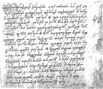 An Azeri poem by Sayat-Nova written in Georgian script.